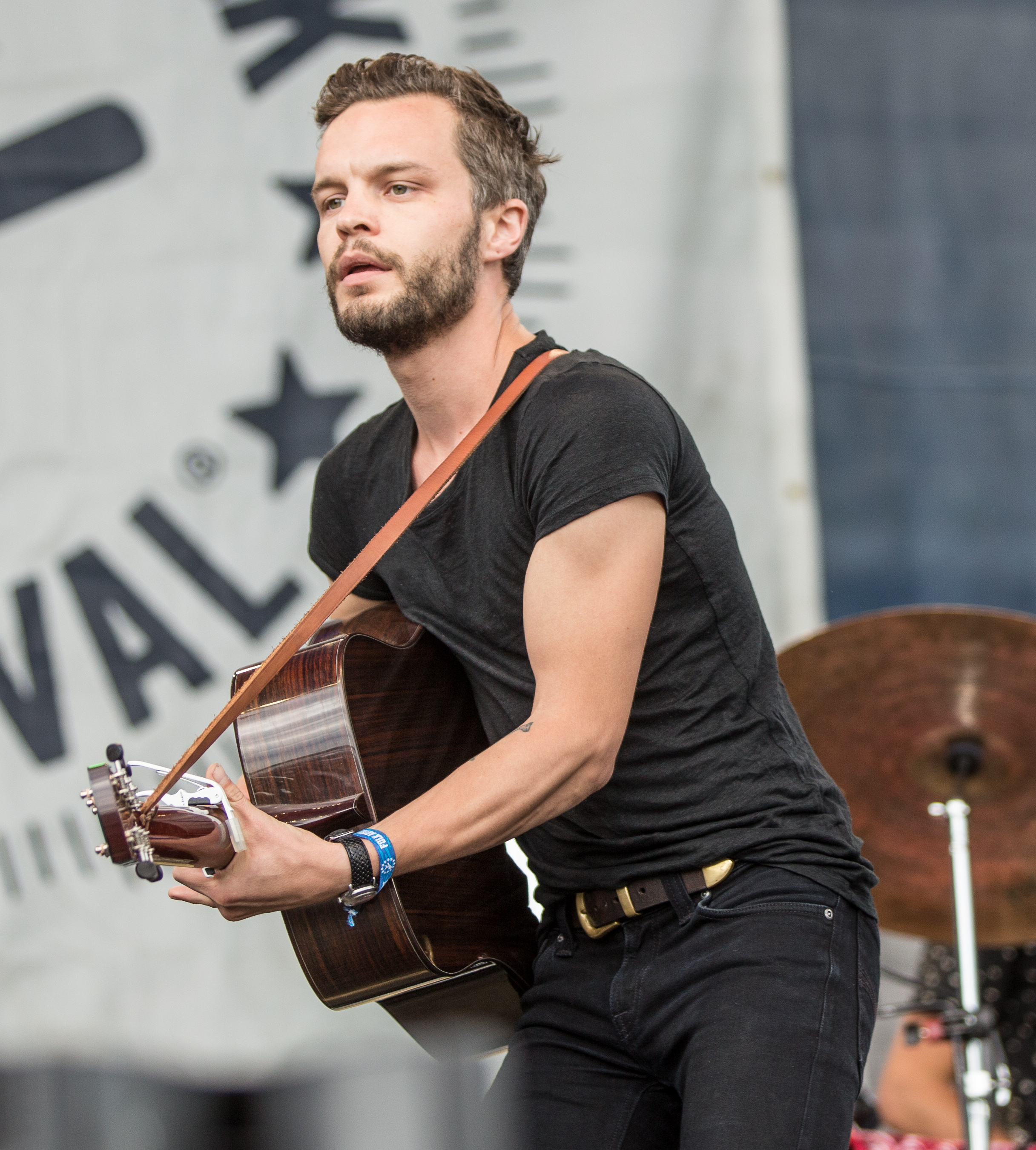 NEWPORT, RHODE ISLAND - JULY 24: Newport Folk Festival kicks off in grand style with a surprise headlining pairing of Roger Waters and My Morning Jacket, joined by Lucius providing background vocals. Other acts performing include Heartless Bastards, Iron & Wine and Sam Bridwell, Tallest Man On Earth, Strand Of Oaks, Calexico, Hiss Golden Messenger, Leon Bridges, and Angel Olsen. Shot at Fort Adams State Park on Friday, July 24, 2015.